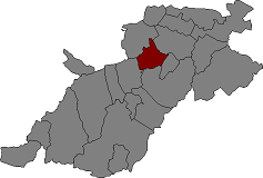 Location of Forès in Conca de Barberà